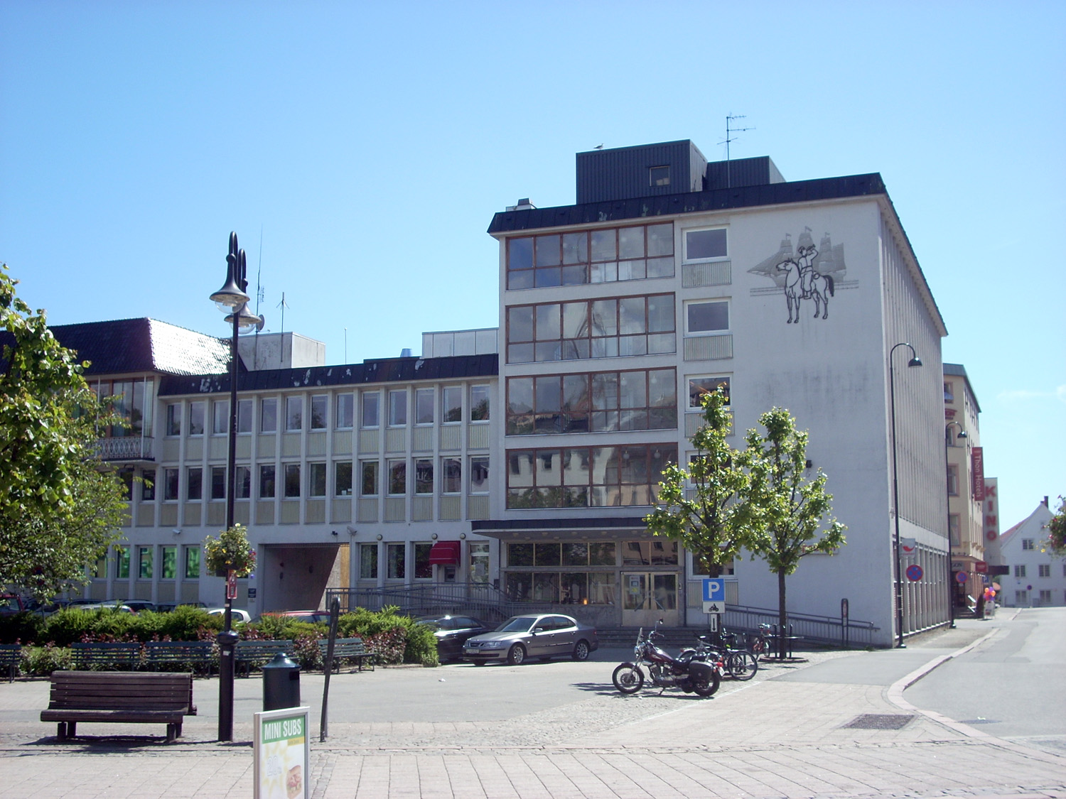 Arendal police station